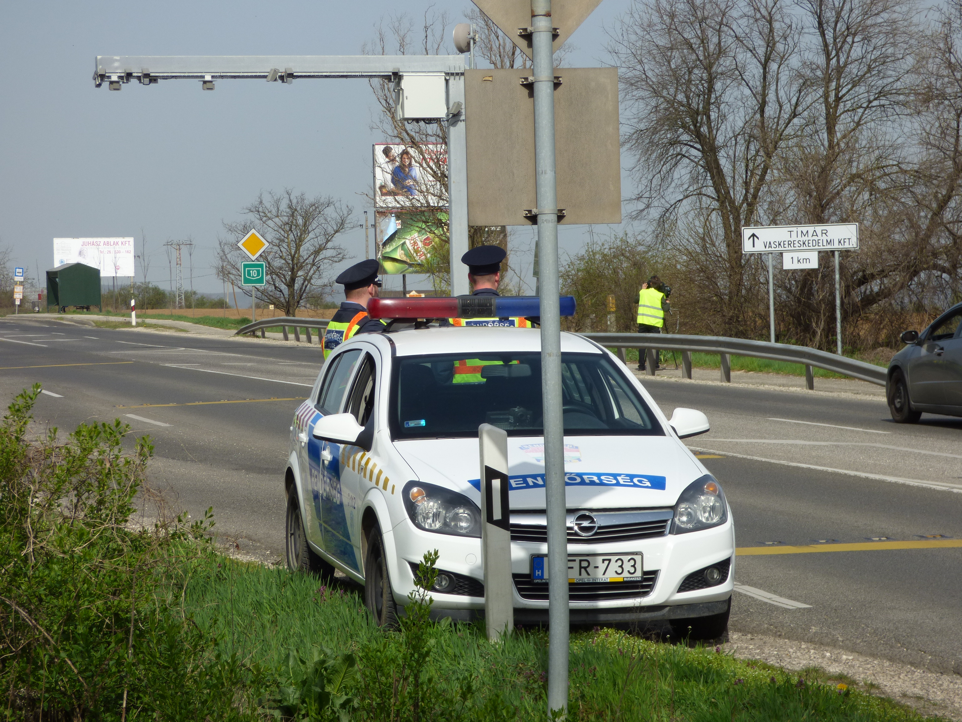 Rendőrök a solymári VÉDA ellenőrző pontnál